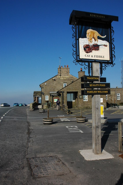 The Cat and Fiddle The Cat and Fiddle claims to be England's highest pub at 1690 feet above sea level.